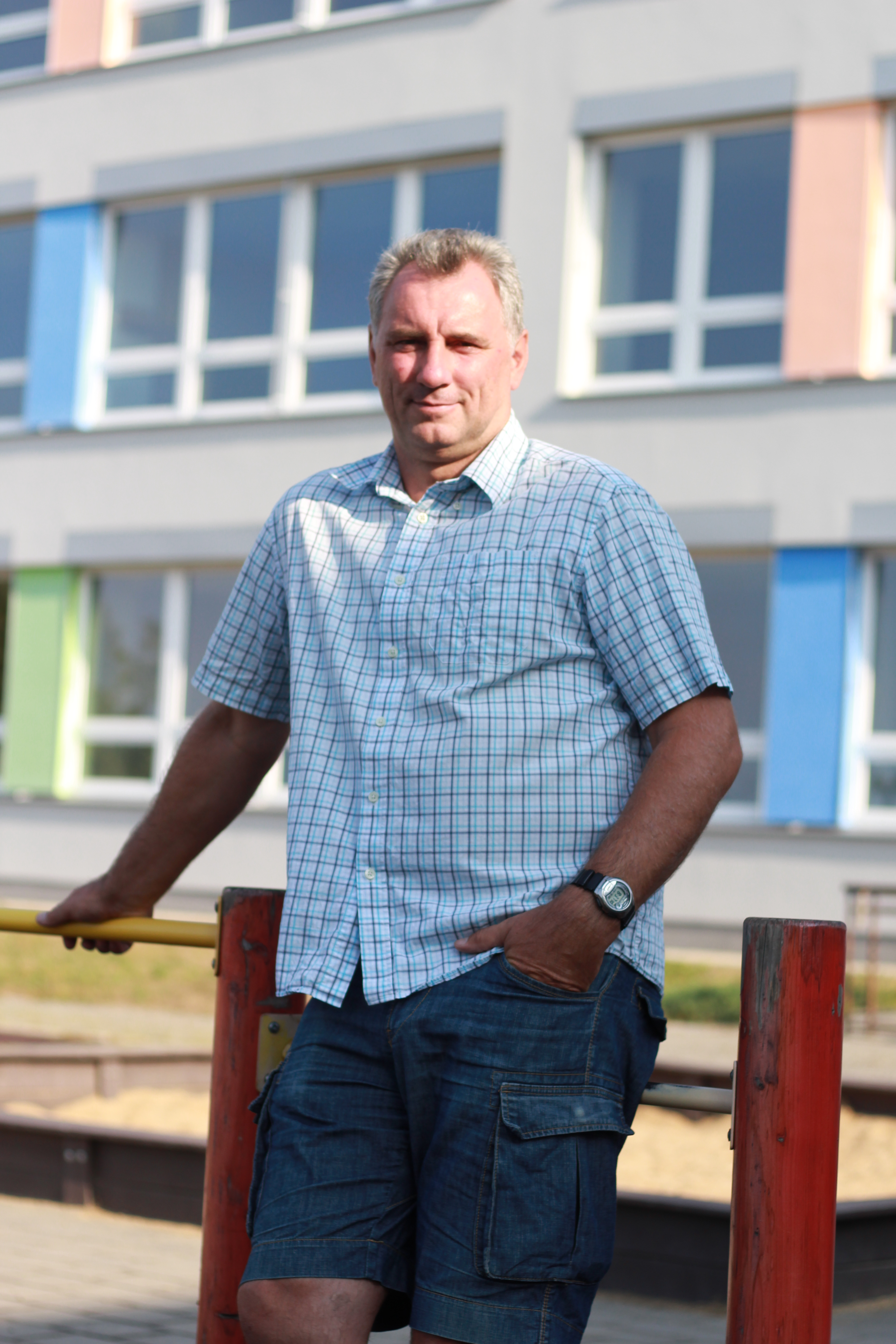 Teacher, head of Elementary school, atlethic coach and politician.